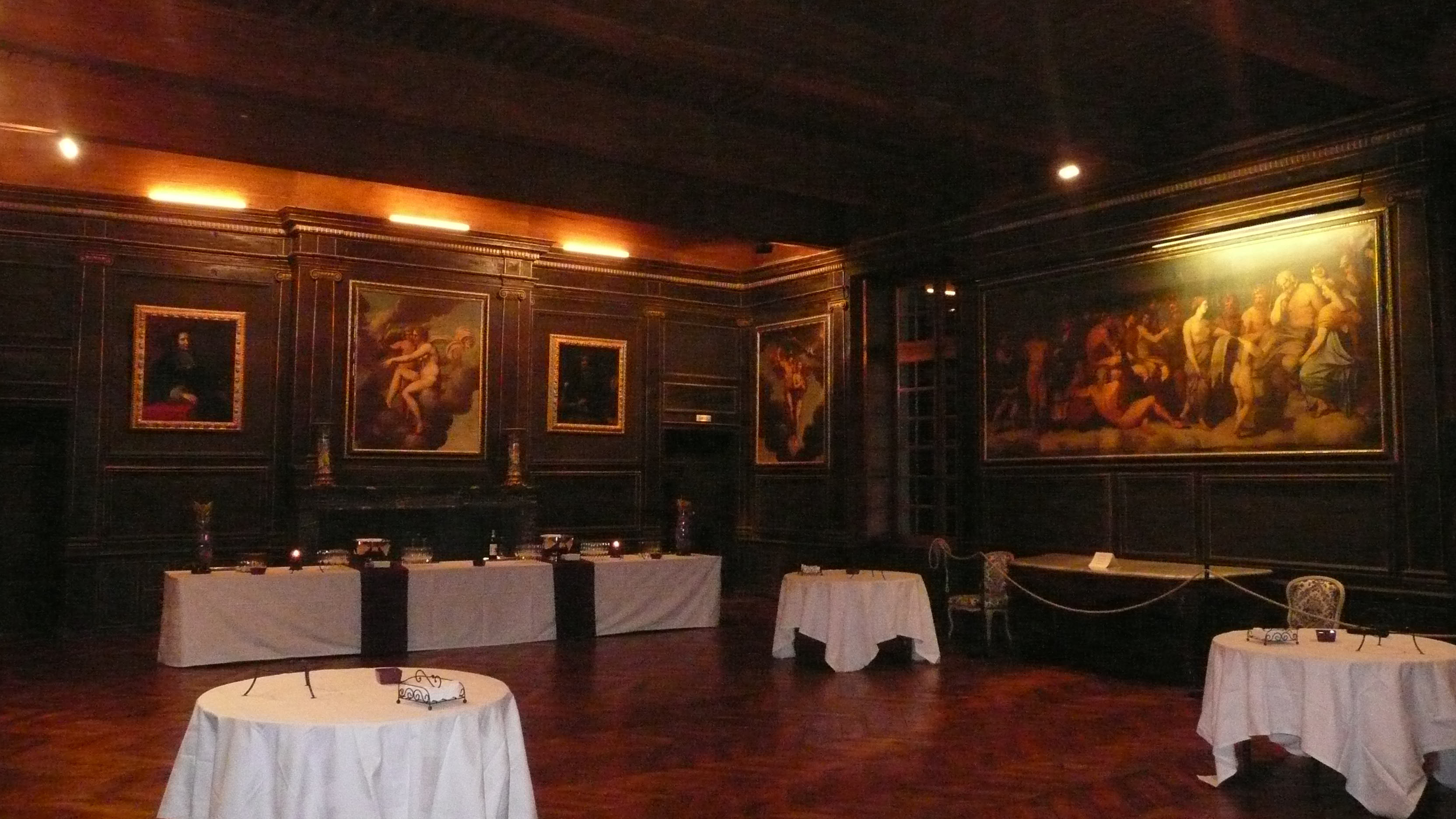 Chateau de Sassenage, near Grenoble